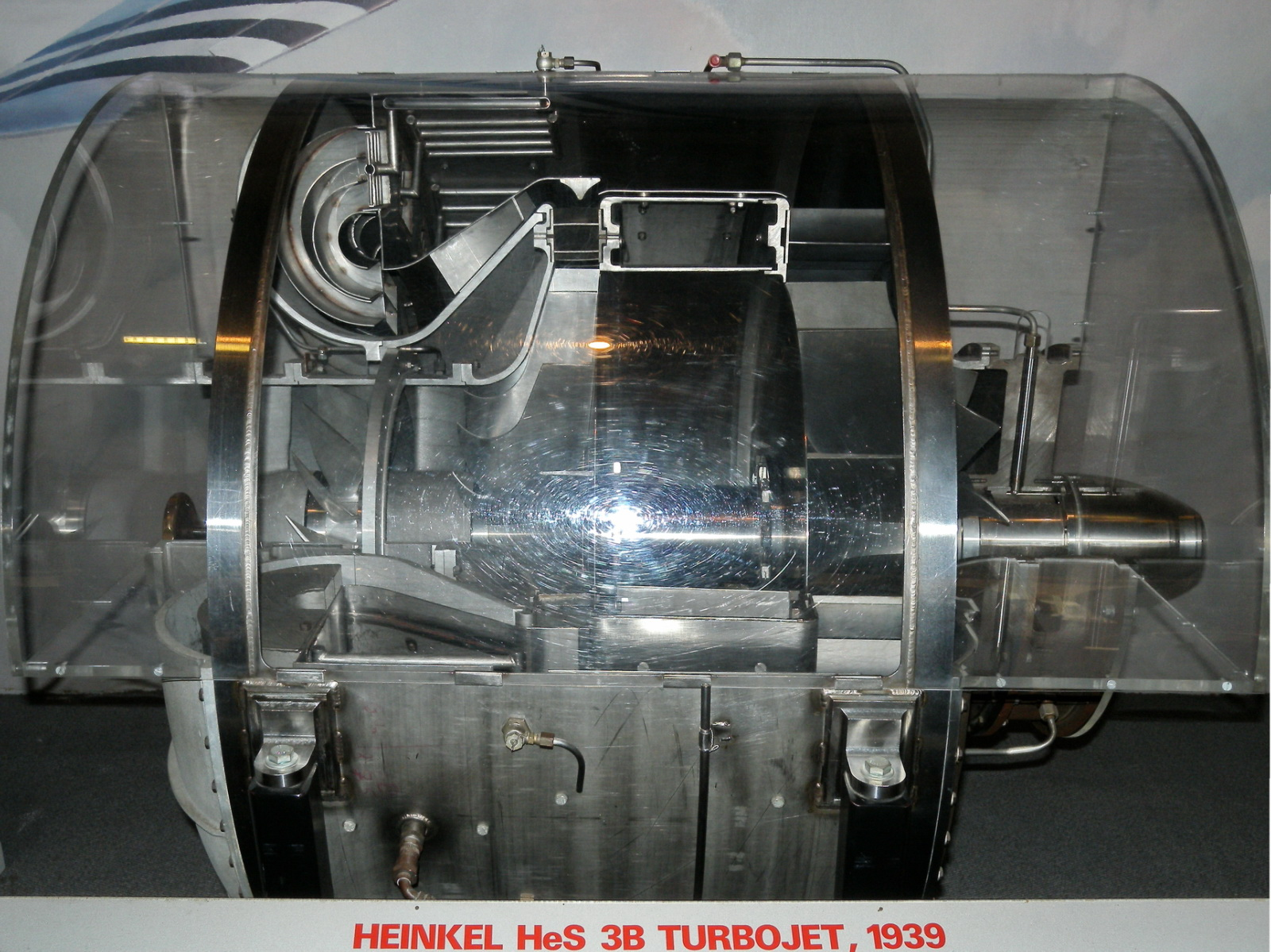 Heinkel HeS 3 Replica.